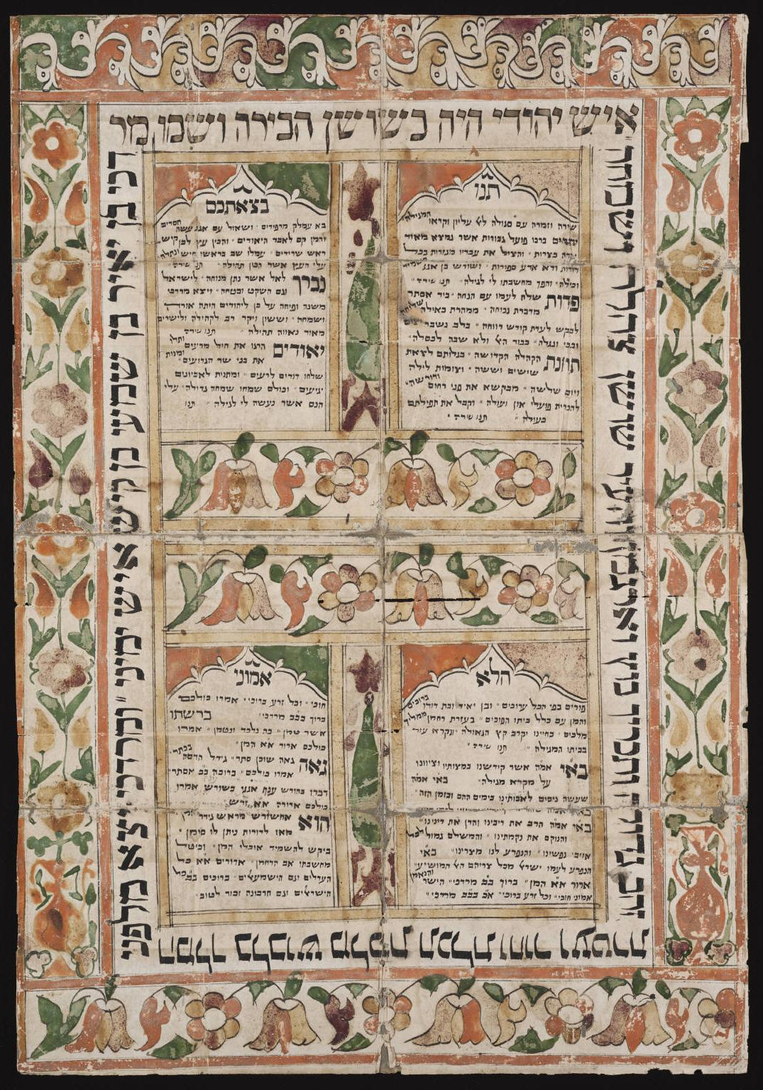 Illuminated plaque on paper with calligraphy and decorative elements. Includes four liturgical poems for Purim customary among Kurdish Jews, verses from the Book of Esther, and the blessings recited before and after the reading of the Megillah.